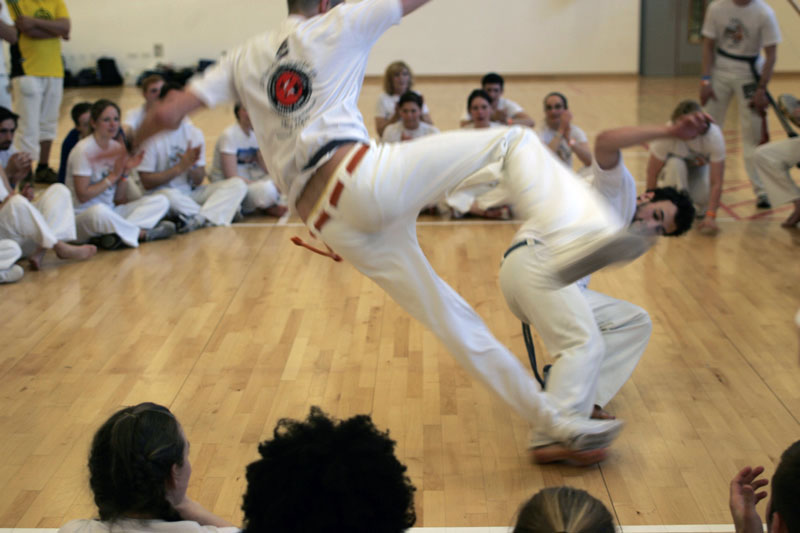 sweep from the floor